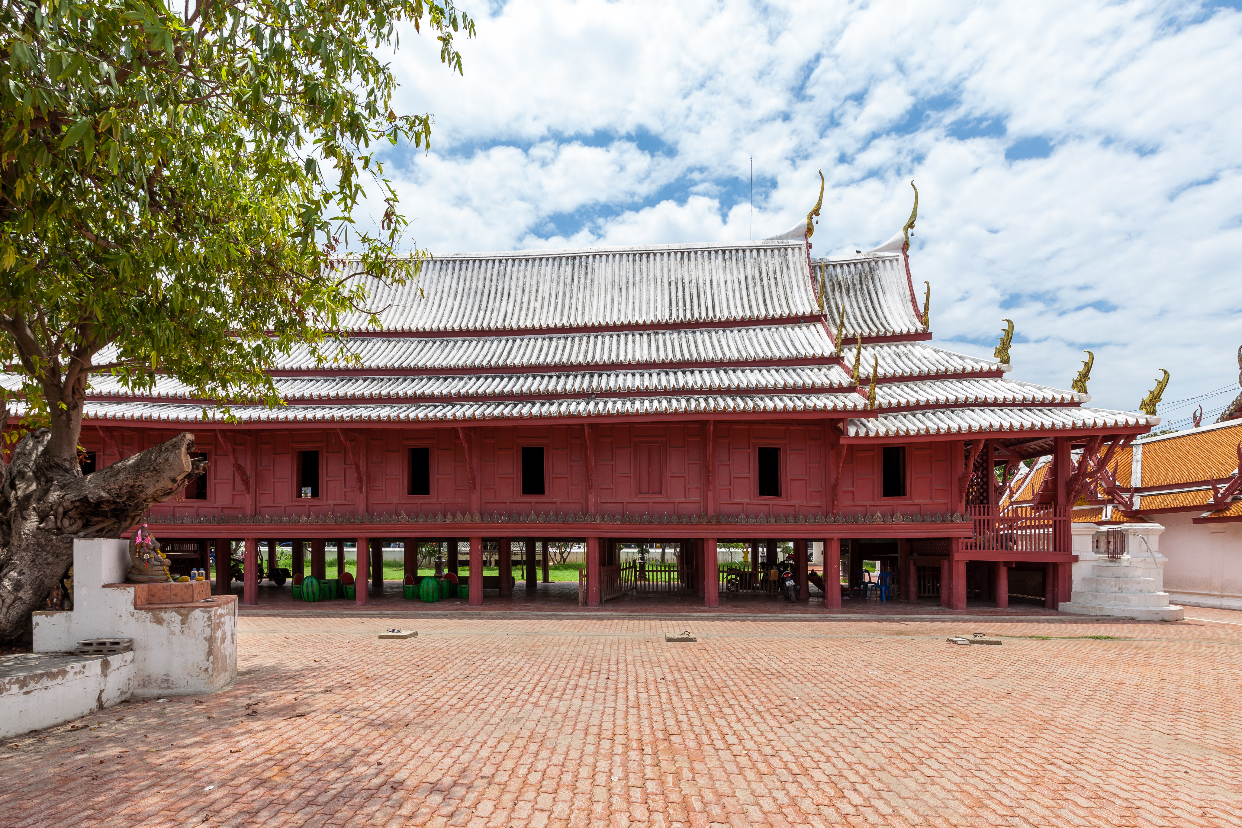 The Sermon hall of Wat Yai Suwannaram, Mueang Phetchaburi district, Phetchaburi Province, Thailand.